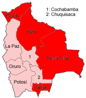 Bolivian region "Media Luna" on map of the departments of Bolivia, named in Spanish (local language)